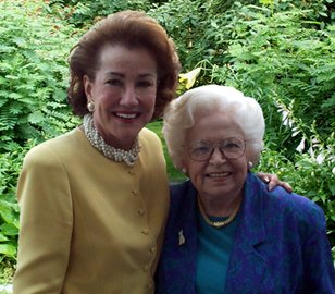 Elizabeth Dole with friend and mentor Virginia Knauer. Mrs. Knauer ran the White House Office of Consumer Affairs in the Nixon Administration where Sen. Dole served as a Deputy Assistant to the President.